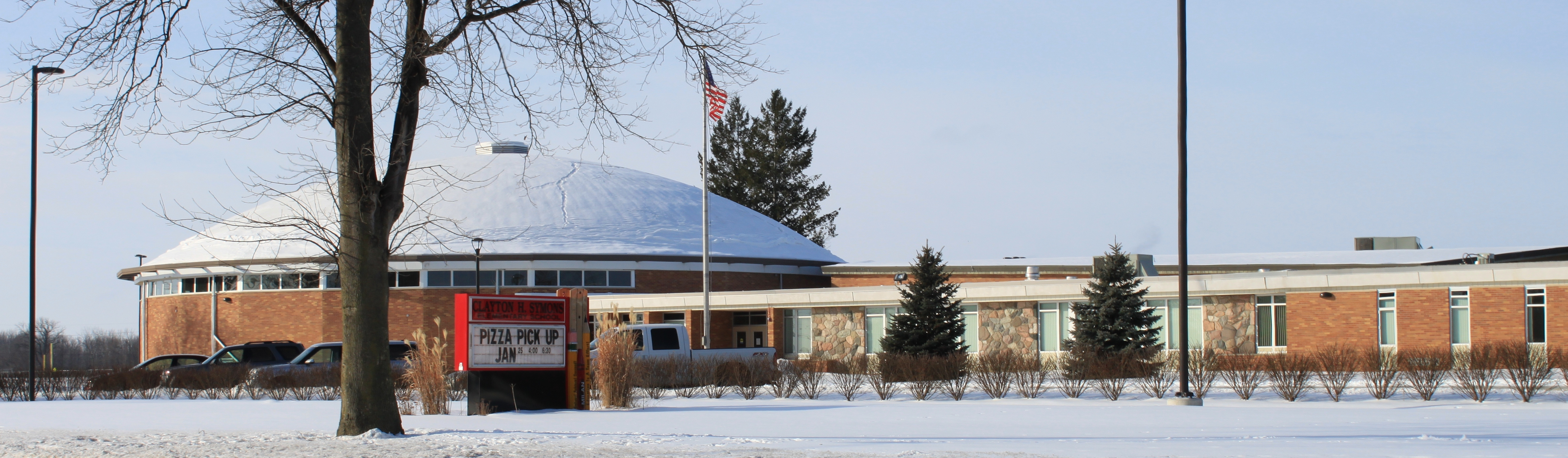 Clayton H. Symons Elementary School, 432 South Platt Road, Milan, Michigan